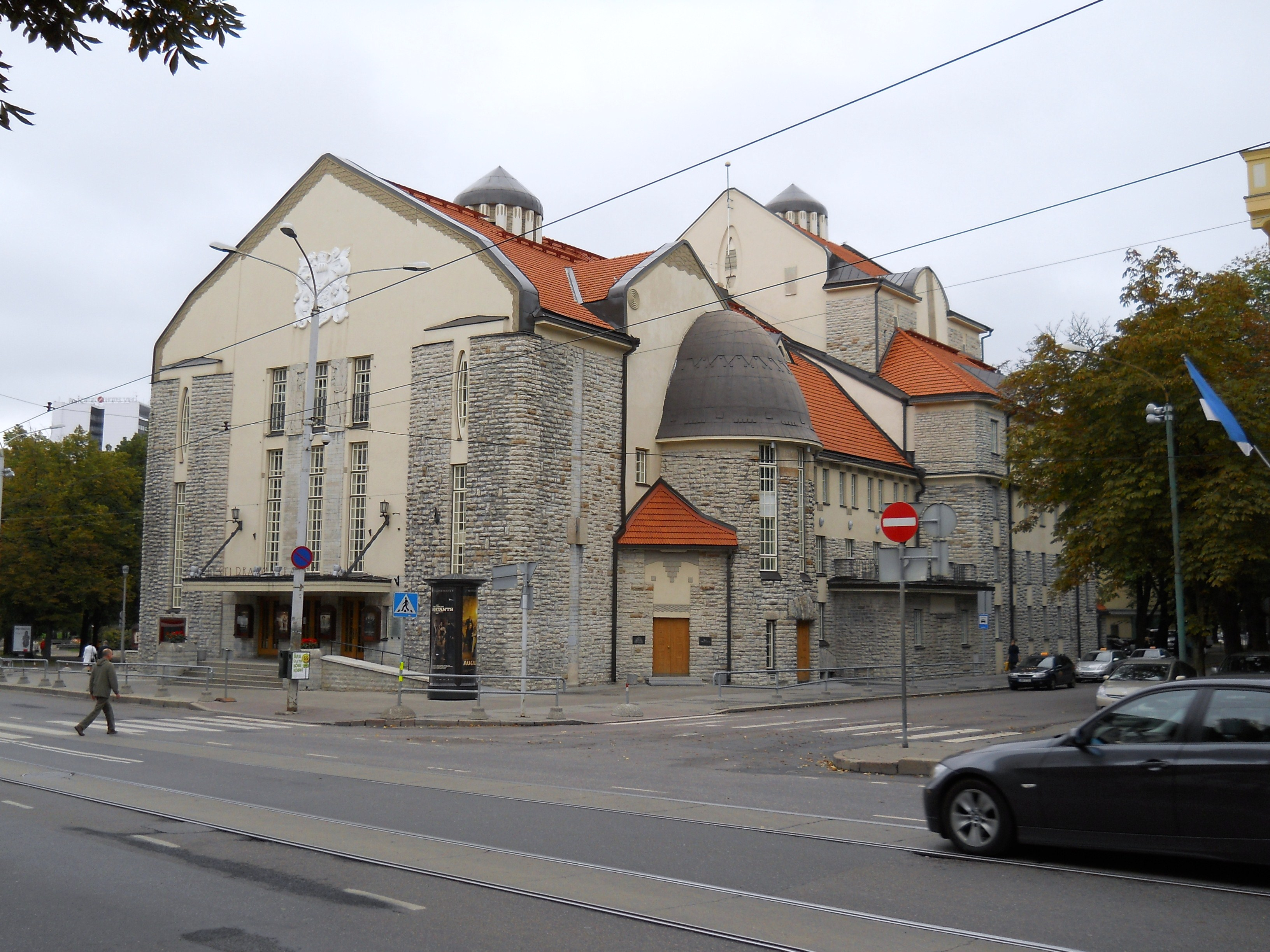 Estonian Drama Theatre